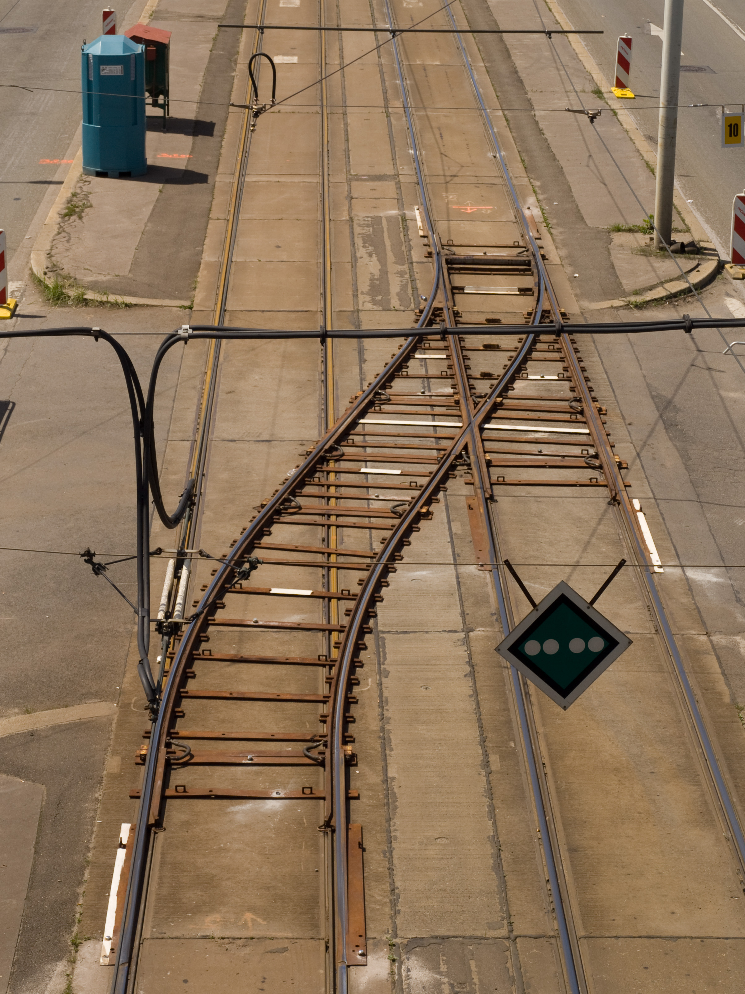 Californian track construction, Motol, reconstruction of tram track Kotlářka – Sídliště Řepy, Prague